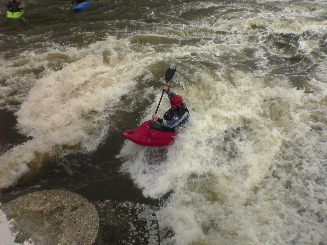 Gareth 'Spargo' Evans on Hurley Weir on 2 gates. Example of kayak playboating in South-East England.